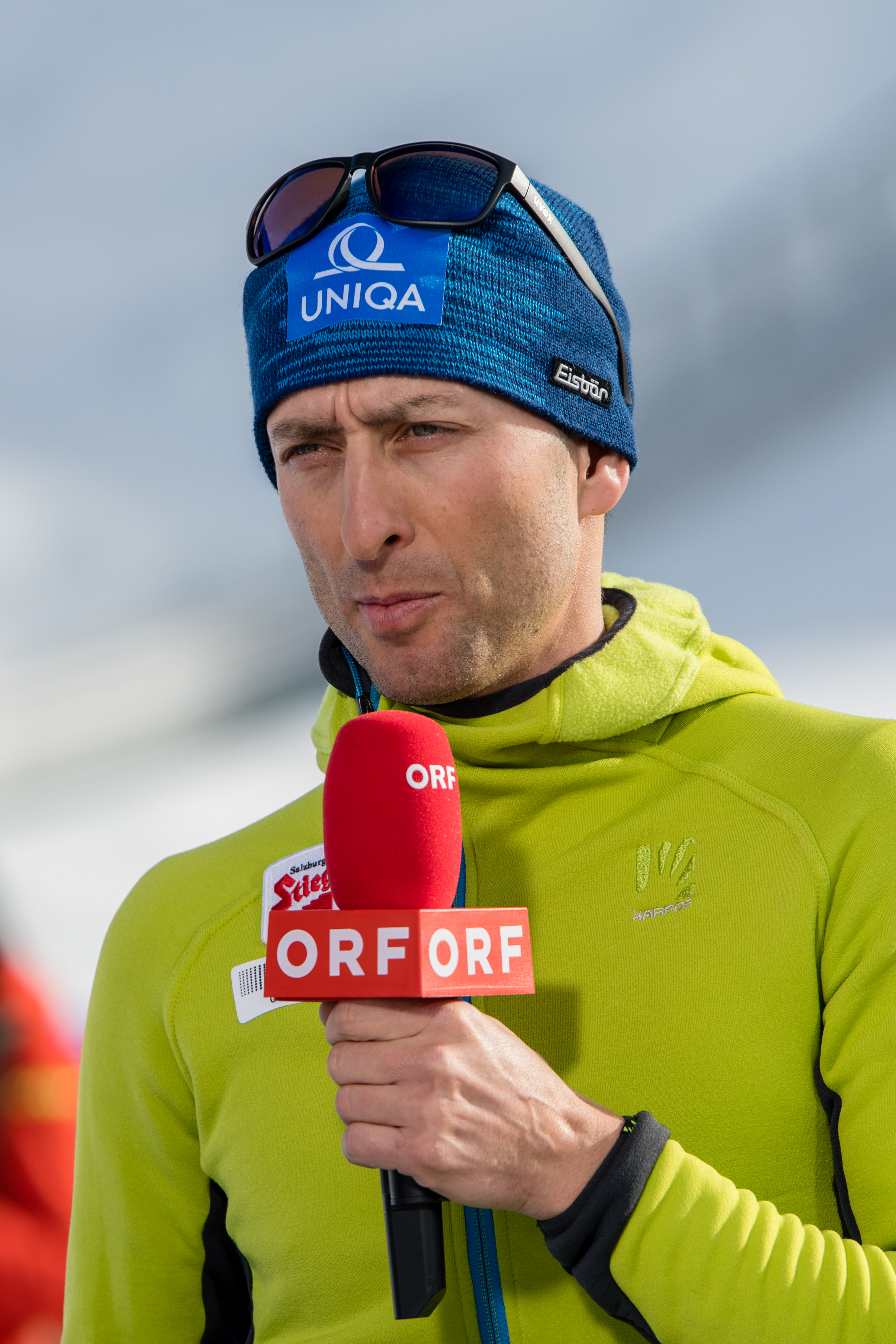 Seefeld-Triple 2018, first day January 26th. Picture shows Mario Stecher